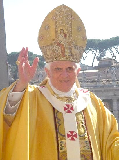 Pope Benedict XVI performing a blessing during the canonization mass in St. Peter's Square in Rome, Italy on Sunday October 12, 2008